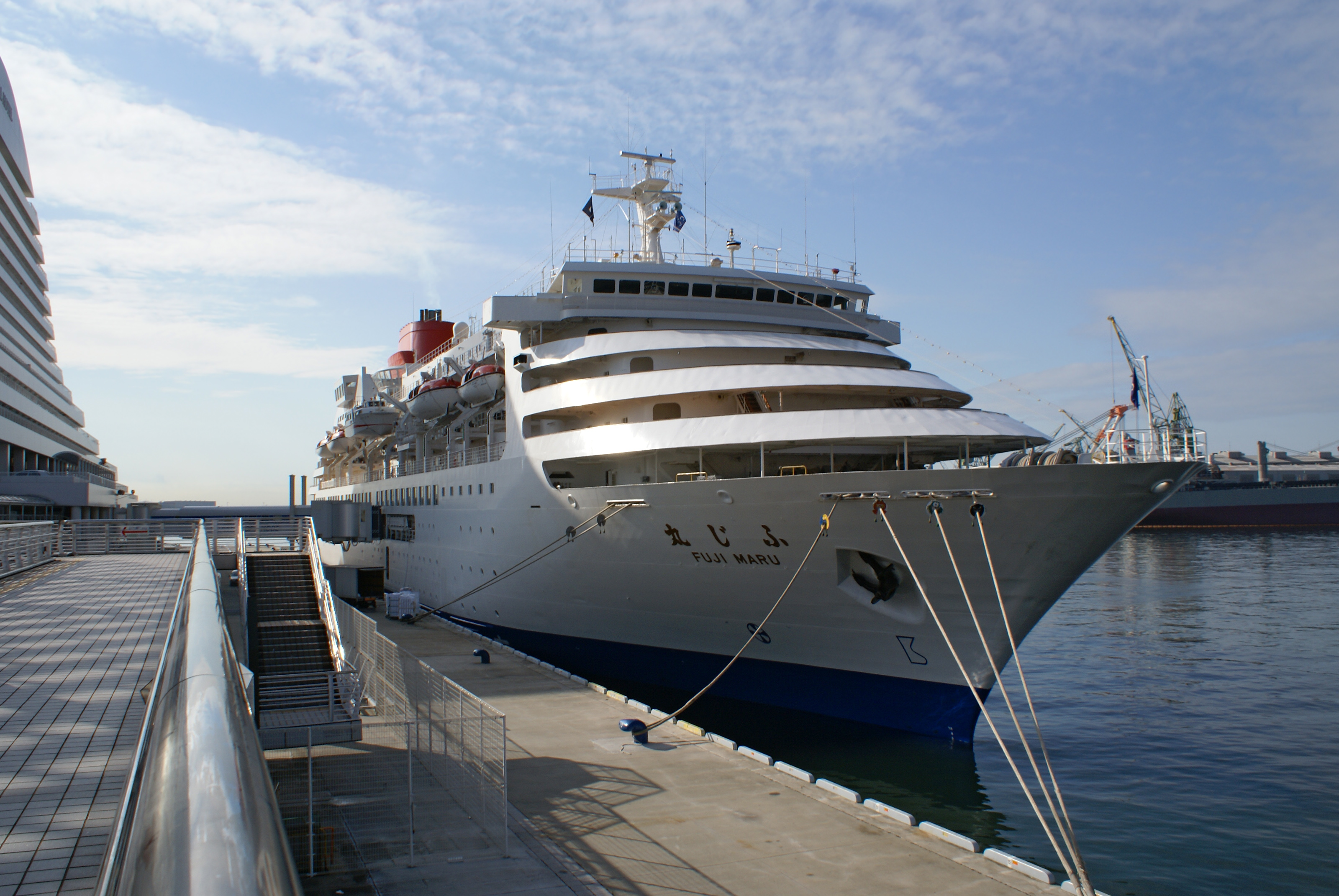 "Fujimaru" who anchors at the wharf "Nakatottei" of the Kobe harbor ( Kobe, Hyogo prefecture, Japan)